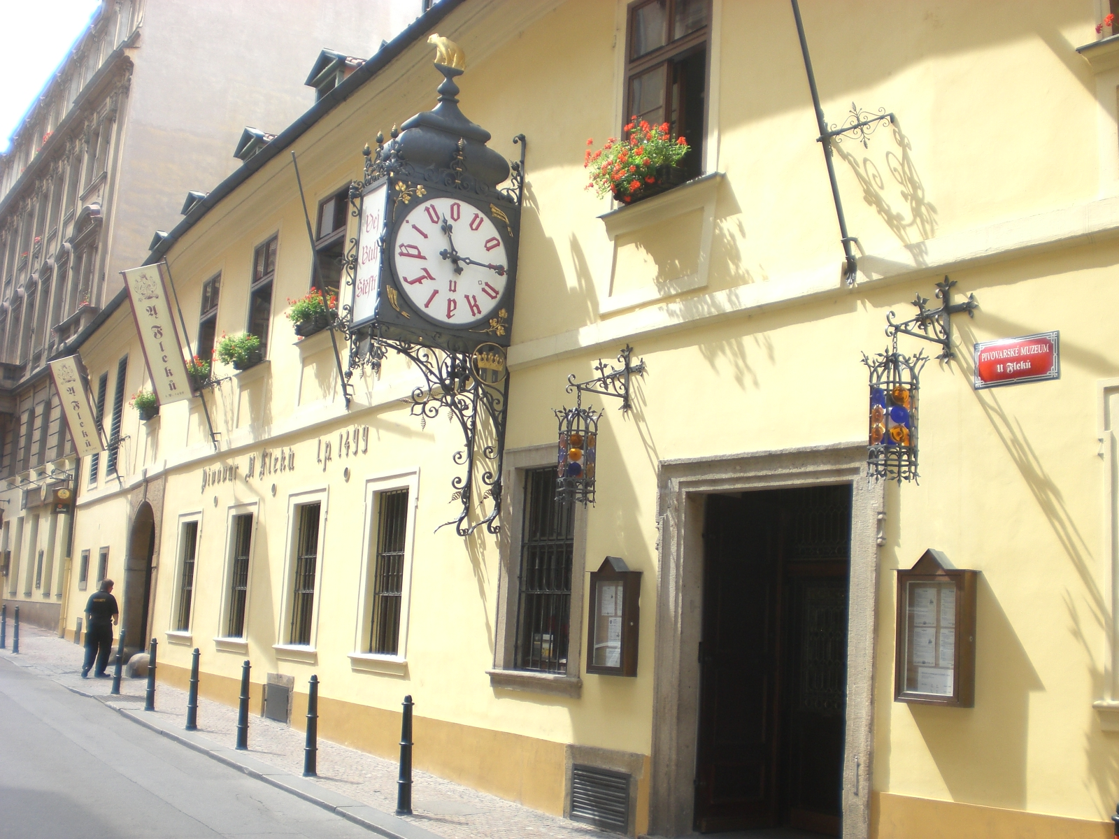 U Fleku. U Fleku is a pub and microbrewery in Prague, which was established in 1499, Prague.